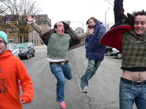 This was taken of the band in Chicago in 2006. I -- Patrick Tillmann -- took the image and fully authorize its use on Wikipedia.